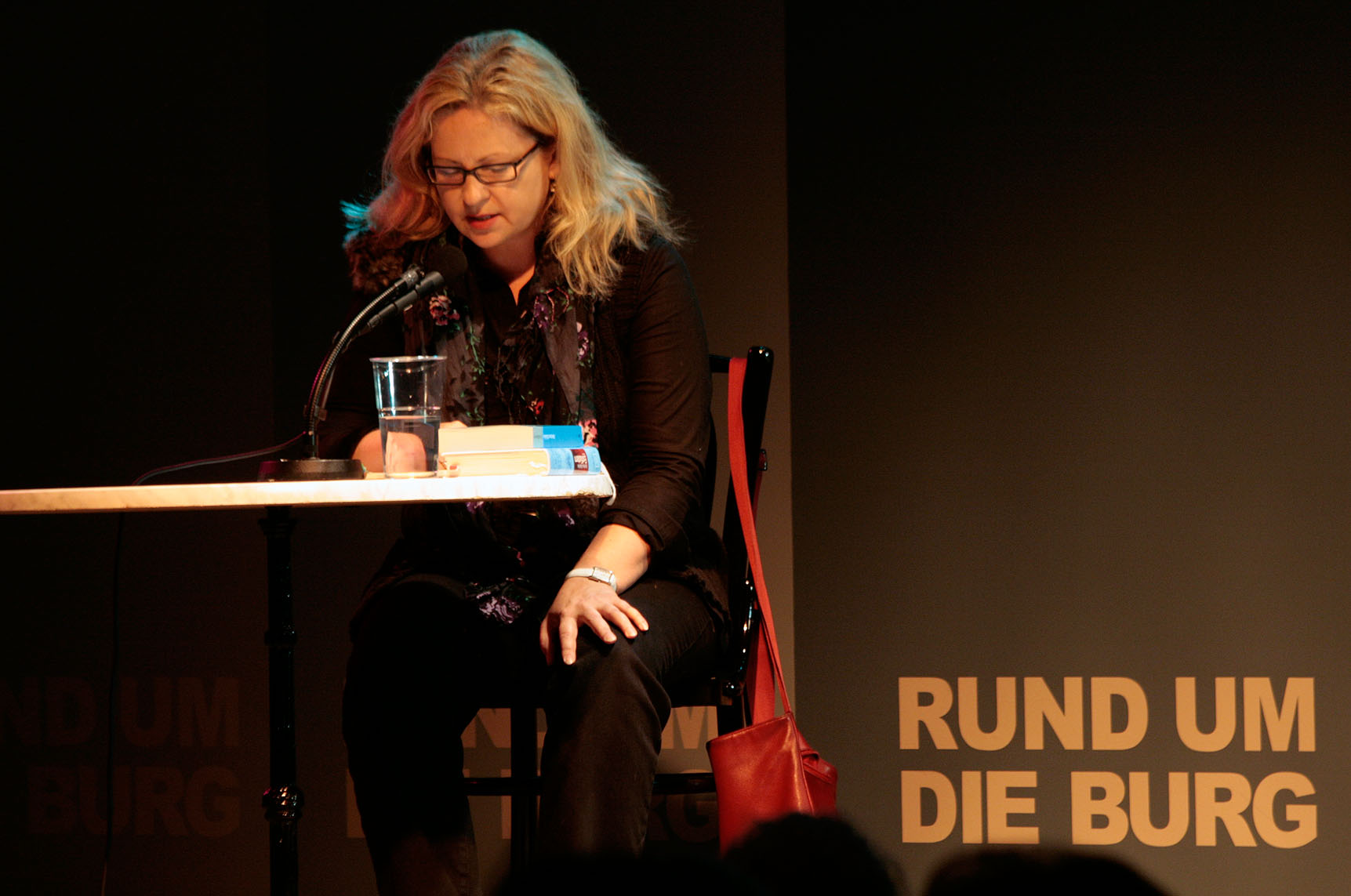 Writer Bettina Balàka (literary evening "Rund um die Burg" 2009 near the Burgtheater in Vienna).